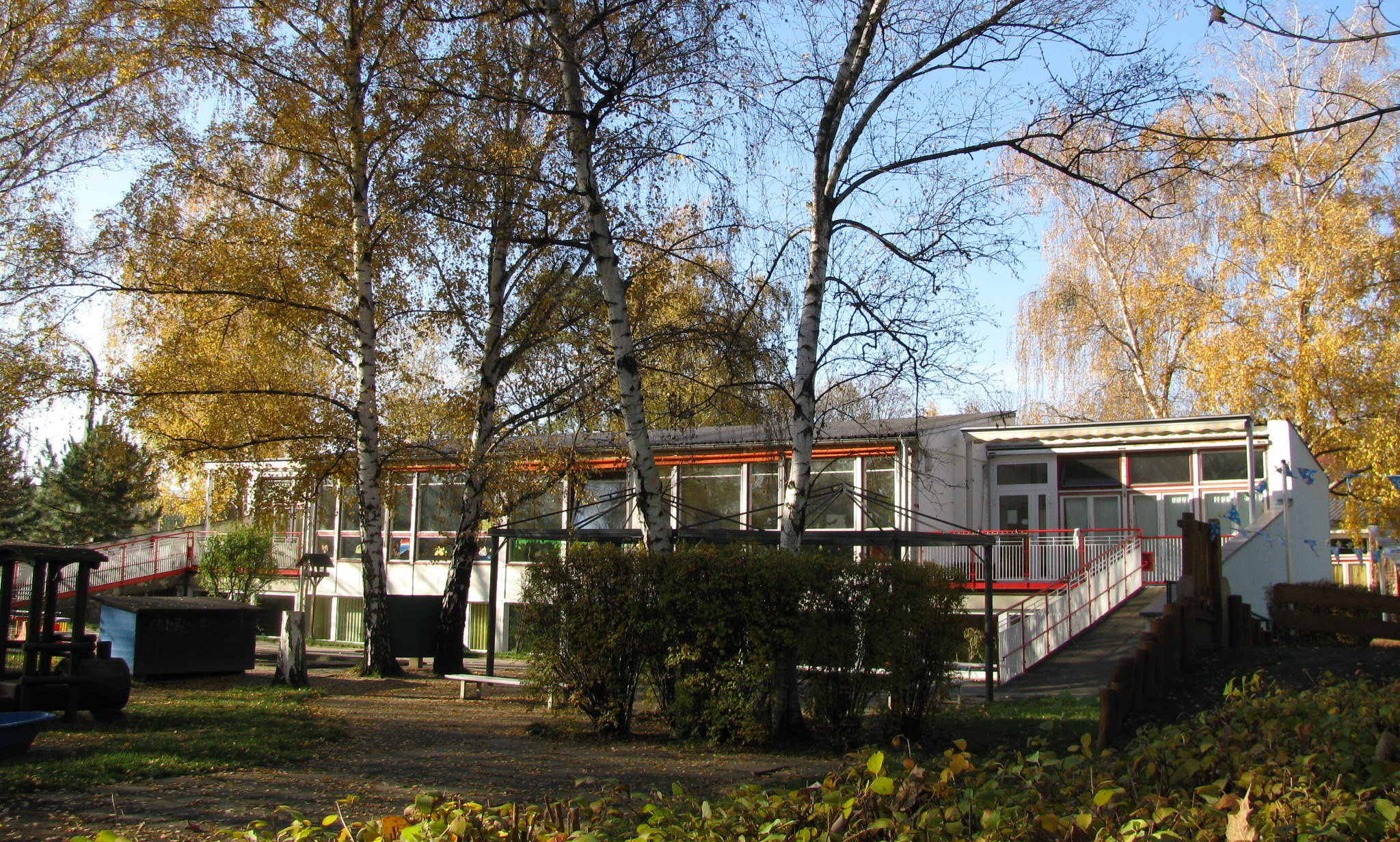 nursery school in Dresden, Germany